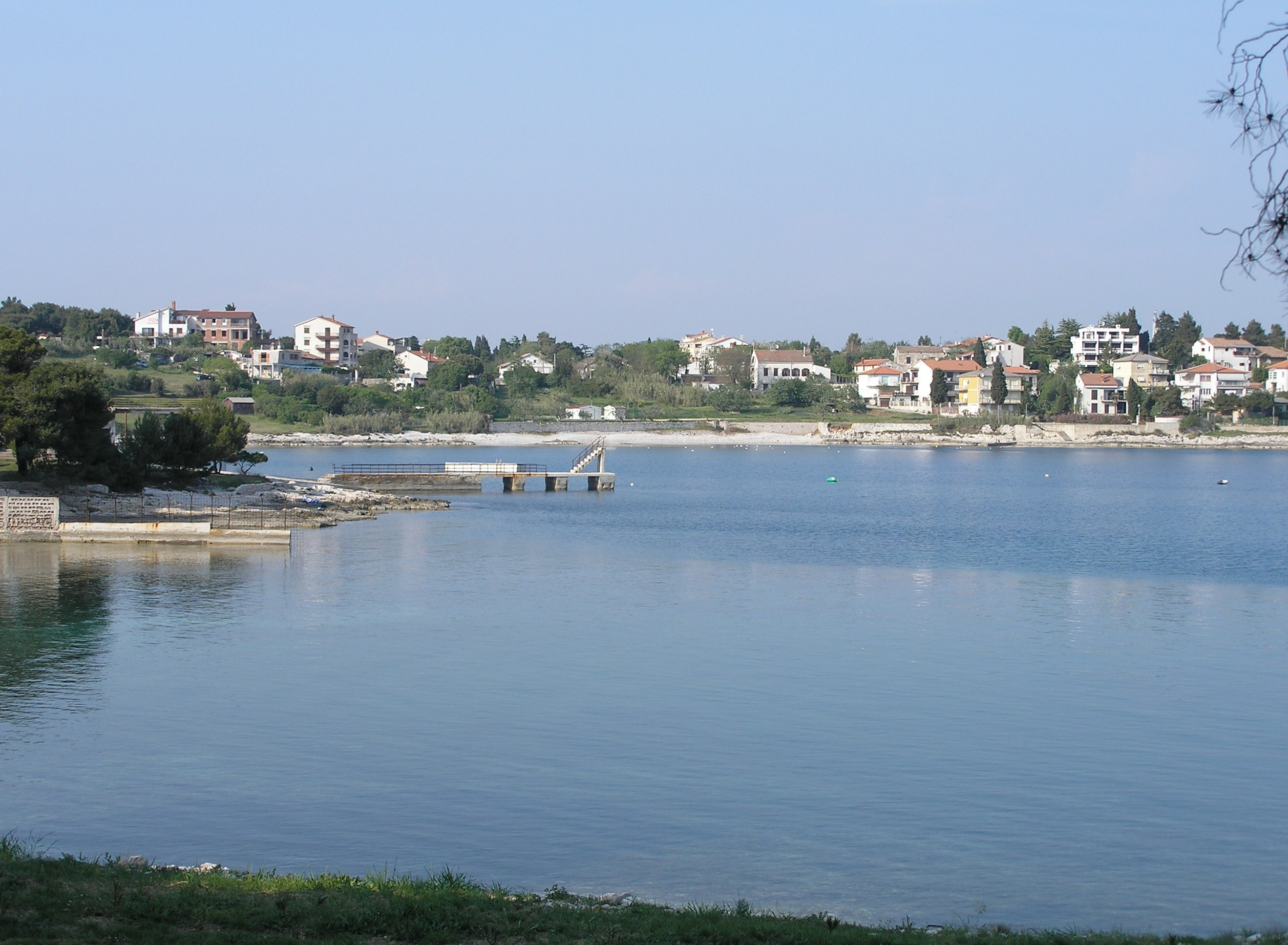 Coastline in Pula, Croatia /view on Medulin, village 11km from Pula